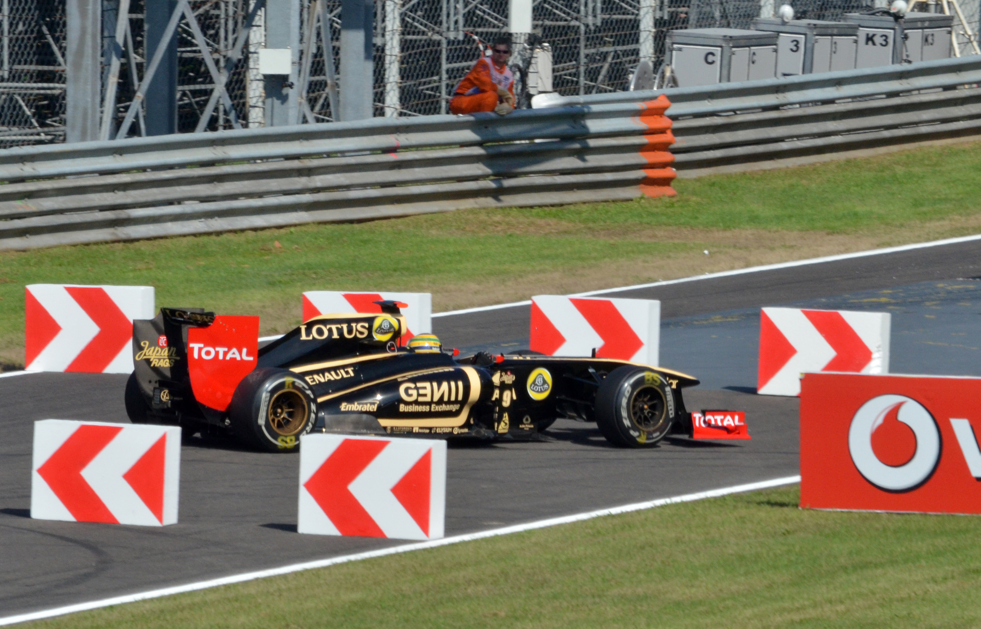 Lotus Renault GP driver Bruno Senna overshoots the Rettifilo chicane in the R31 during first practice for the 2011 Italian Grand Prix at Monza.